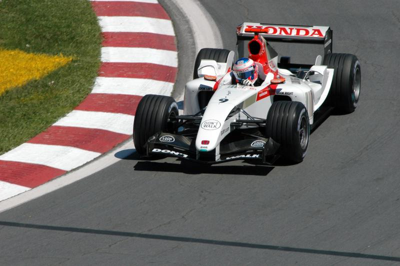 Jenson Button second corner